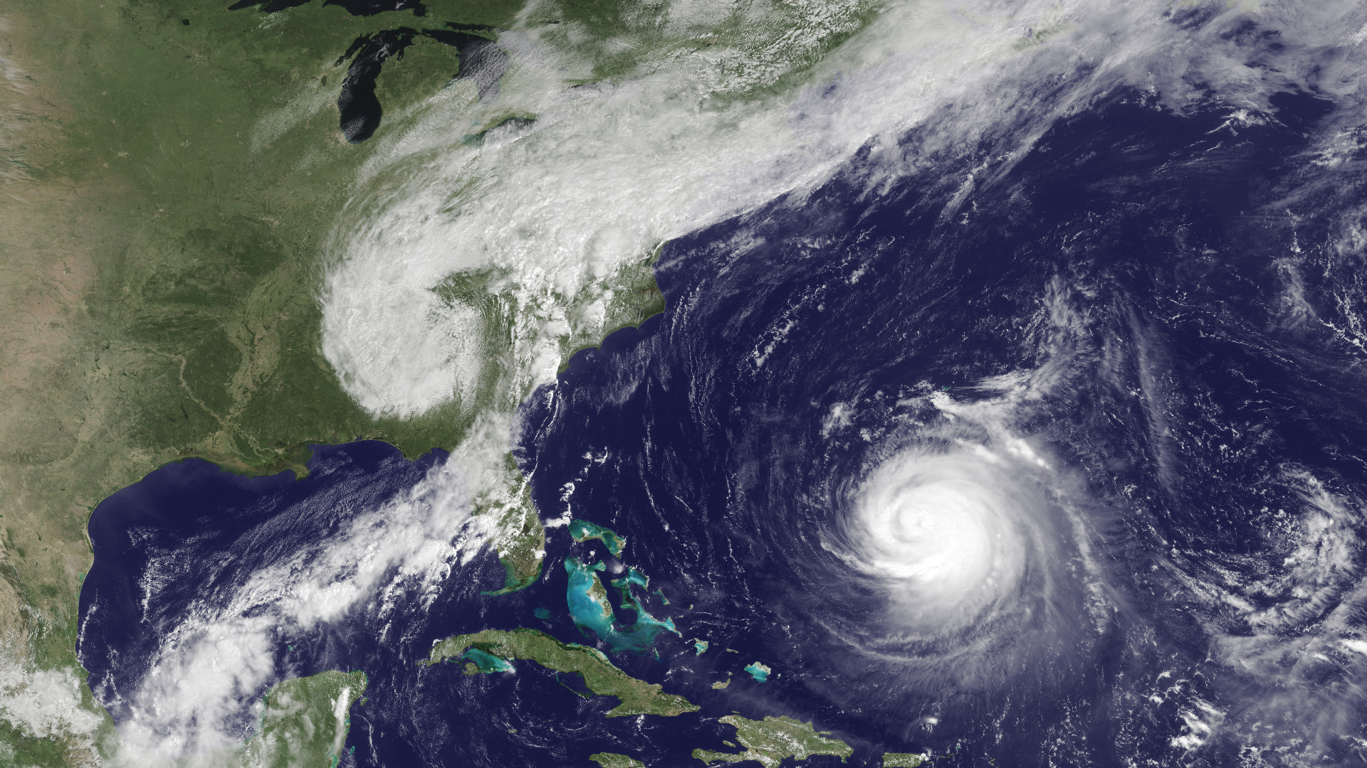 On 6 September 2011 Lee was a post-tropical cyclone which has been absorbed by a frontal system across the southeastern United States. That day, the low center was expected to move northward into the southern Appalachians. As this tropical moisture crossed the frontal boundary it was lifted, resulting in extremely heavy rainfall in locations well in advance of the circulation center. Meanwhile Hurricane Katia has gone through a classic eyewall replacement cycle and in this stadium there has been little change in the track forecast. Katia was expected to make a turn to the northwest and north over the next 2 days. Katia was expected to remain a powerful storm as it transitions to extratropical status over the north Atlantic Ocean. In the left lower corner of the image, over the Bay of Campeche, is lingering the system which eventually would spawn Nate. This image was taken by GOES East at 1545Z on September 6, 2011.